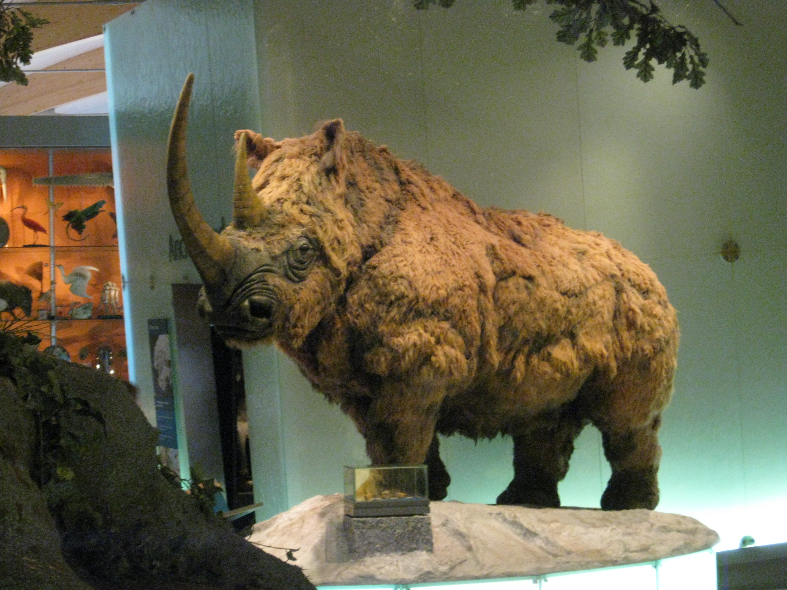 Woolly Rhinoceros display in the Weston Park Museum, Sheffield